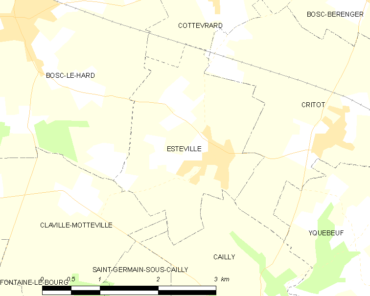 Map of French municipality Esteville